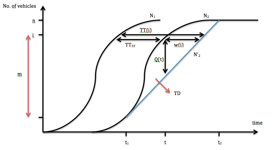 N-curves showing the different traffic flow characteristics that can be determined from them.